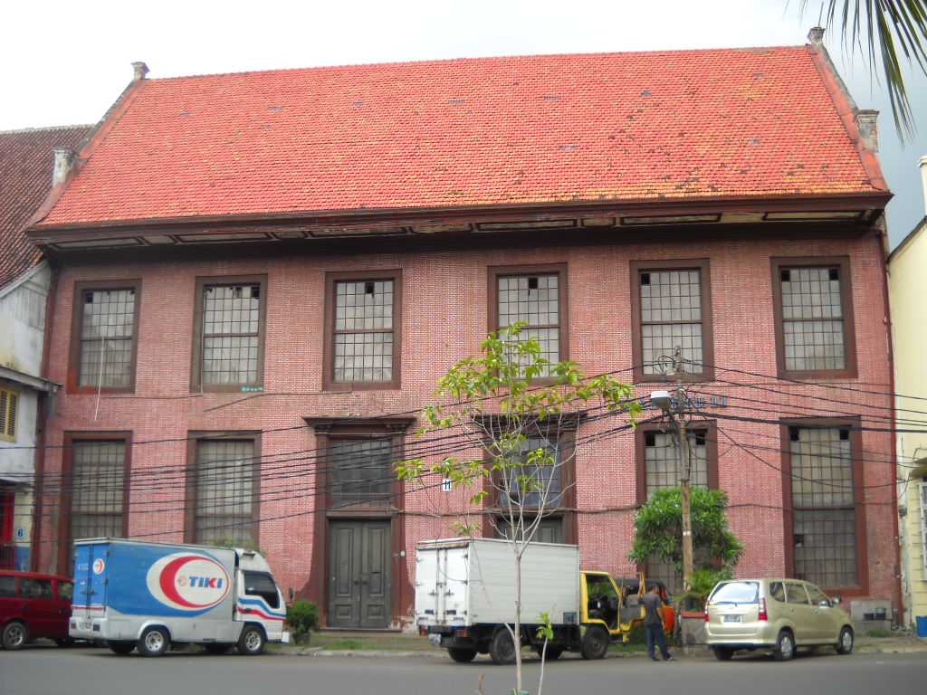 Toko Merah in Kota Tua area, Jakarta.